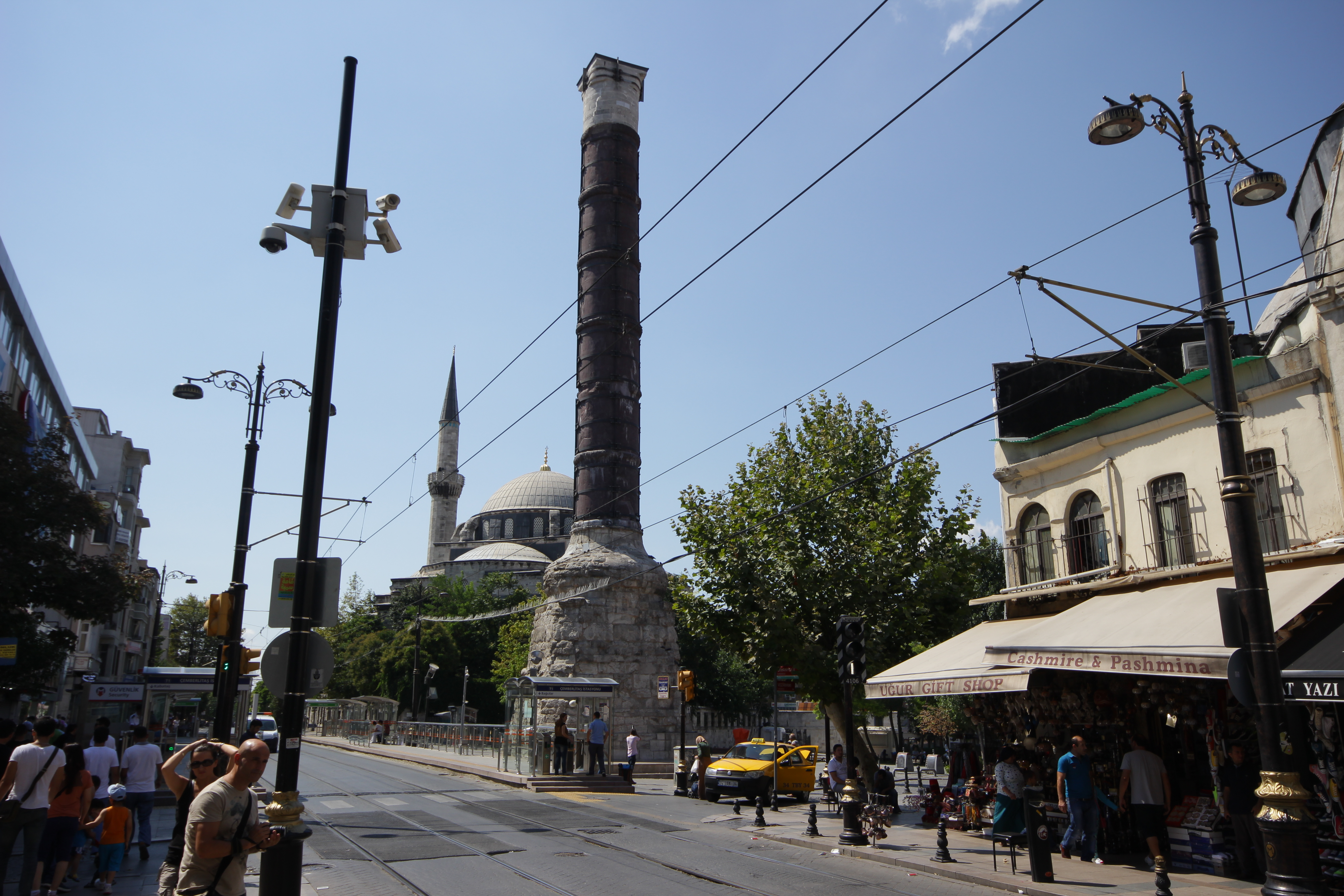 The Column of Constantine seen from south-east with the Cemberlitas tram stop in fron of it.